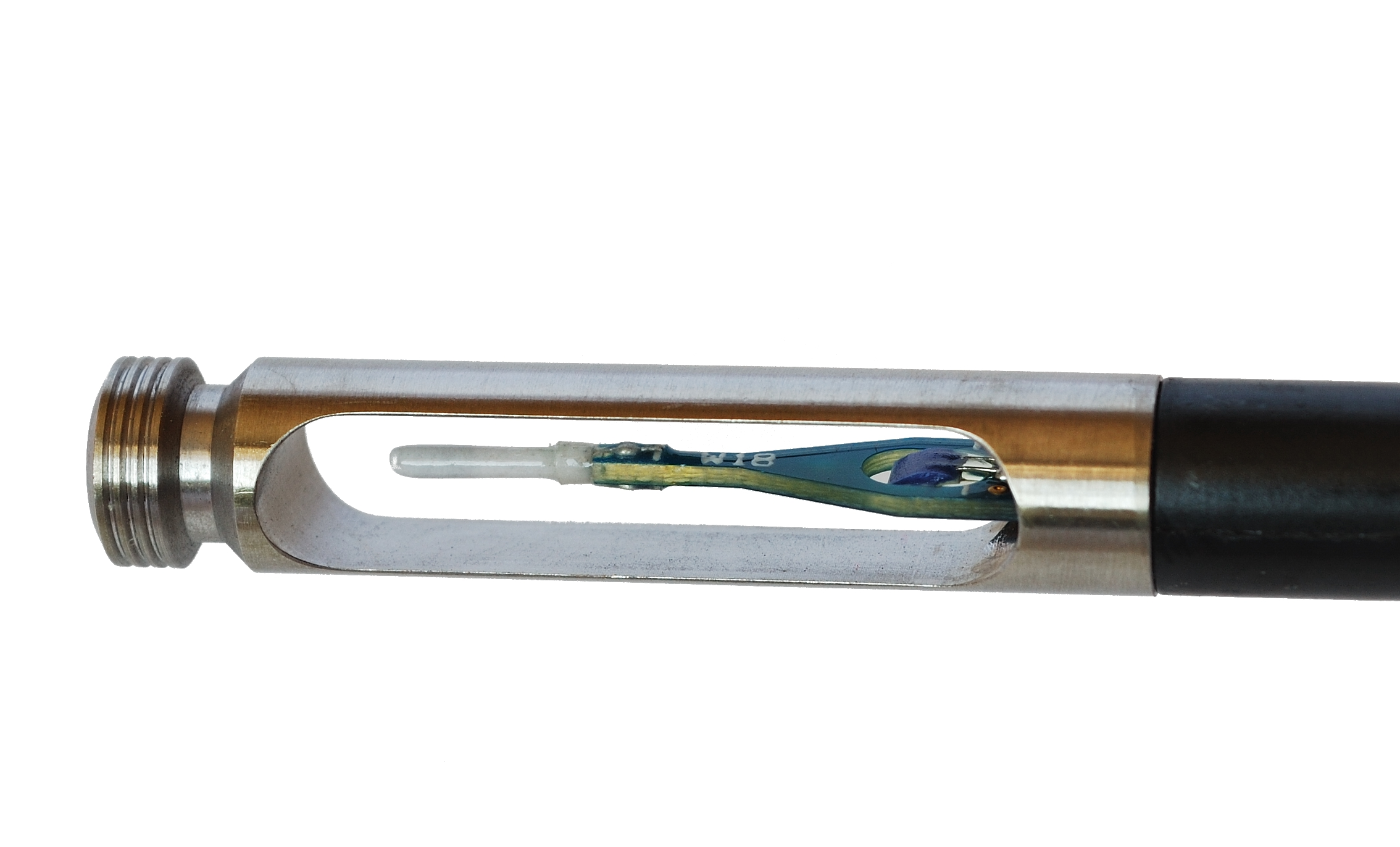 The probe of the combined air velocity and air temperature meter, thermal anemometer, type TSI VelociCalc 9535.